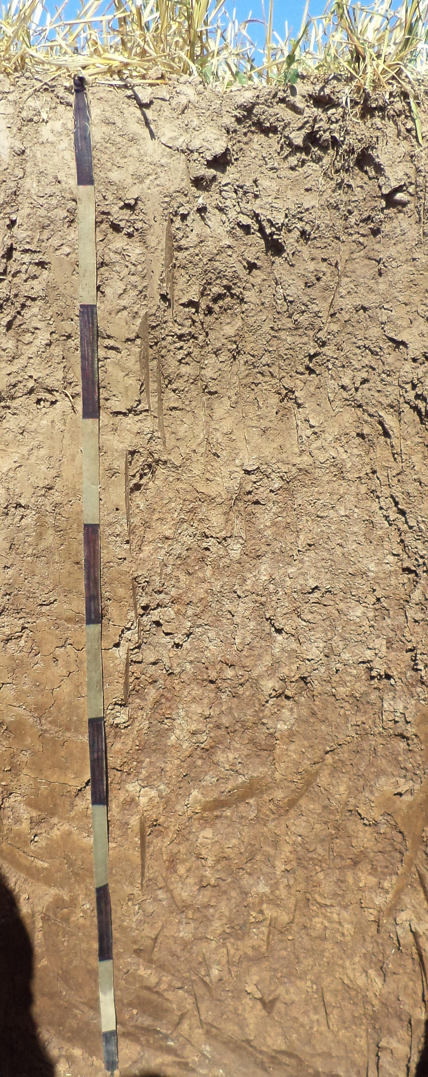 Gray forest soils (Humic Luvisols). The Podolian Upland. Ukraine (Found artifacts Trypillian culture).